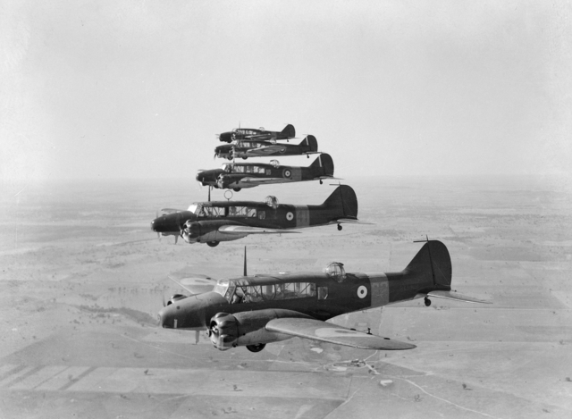 Five Avro Ansons at No. 2 Service Flying Training School, Wagga Wagga (NSW). Pilots' names unknown.